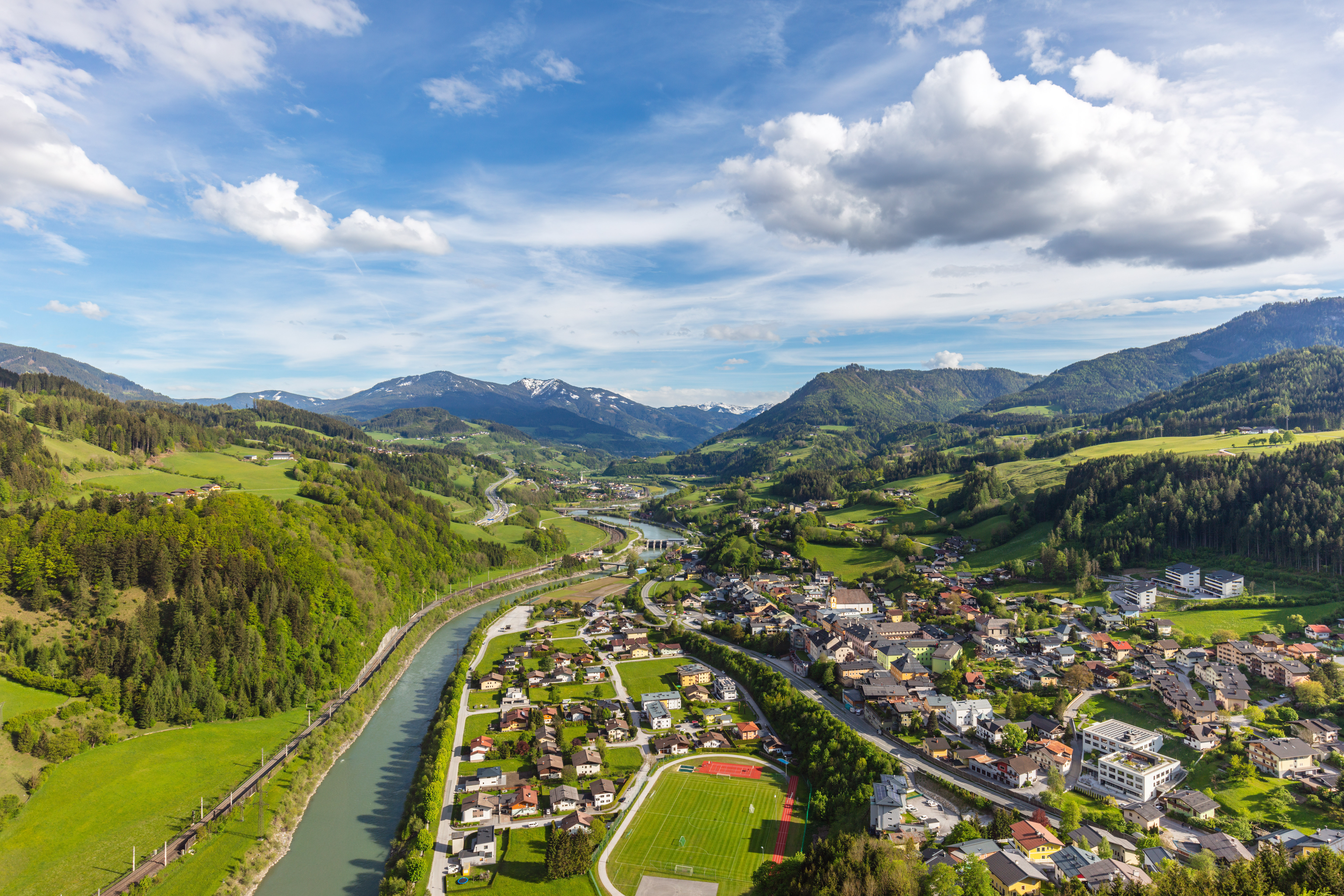 View of Werfen, Austria